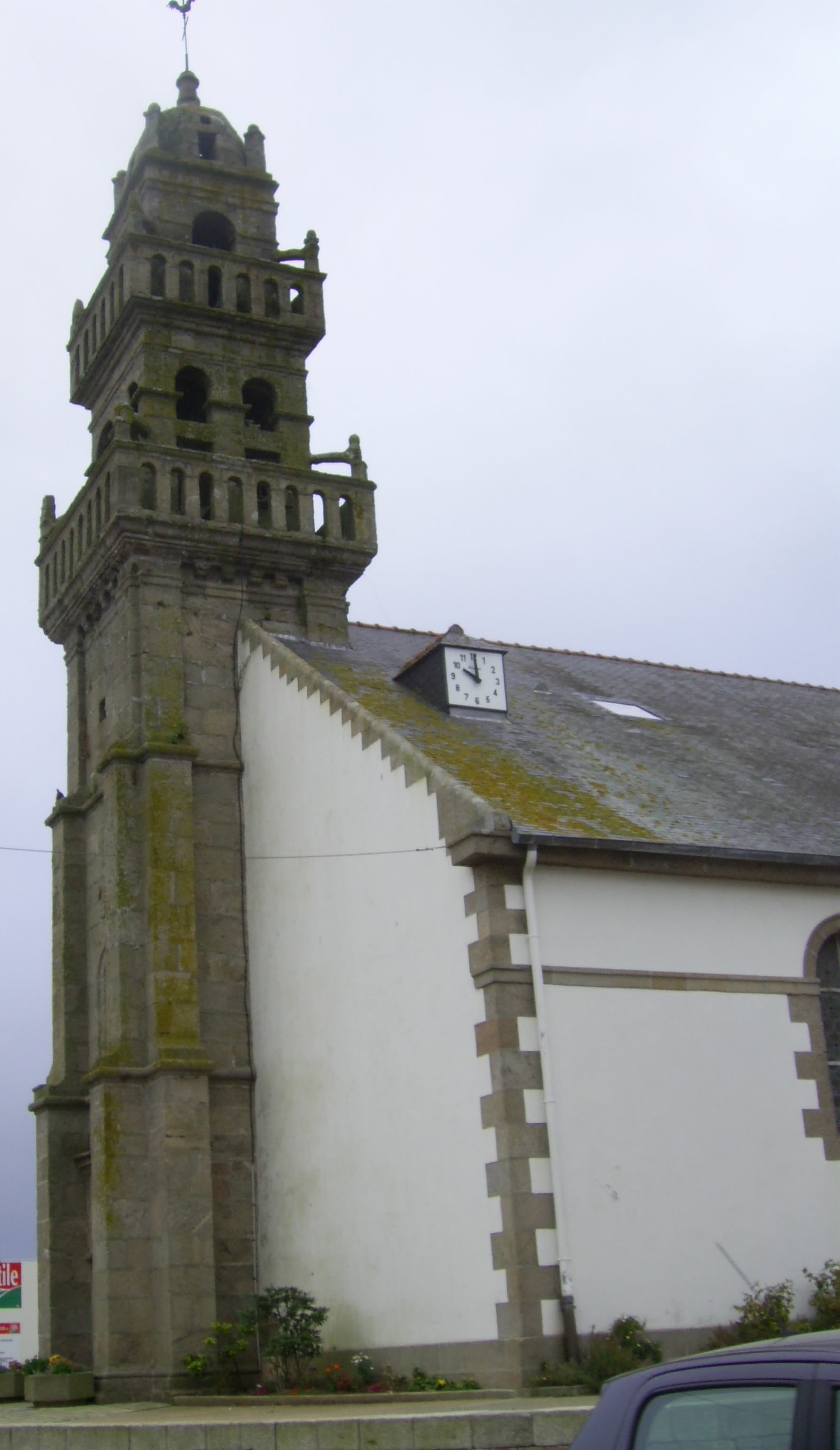 Church Saint-Congar of Landéda (France, Finistère)